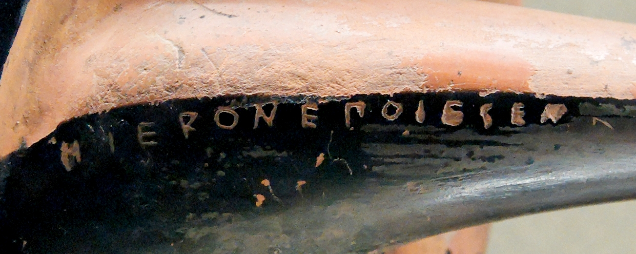 Signature of the potter Hieron. Detail of the exterior of an Attic red-figure kylix, ca. 480 BC. From Vulci.